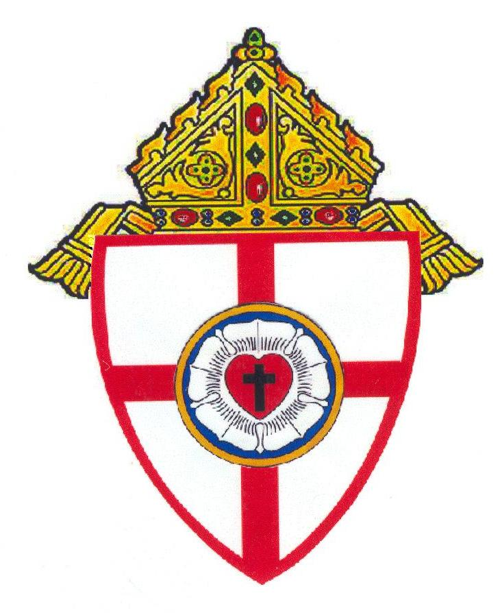 Anglo-Lutheran Catholic Church Official Church Logo